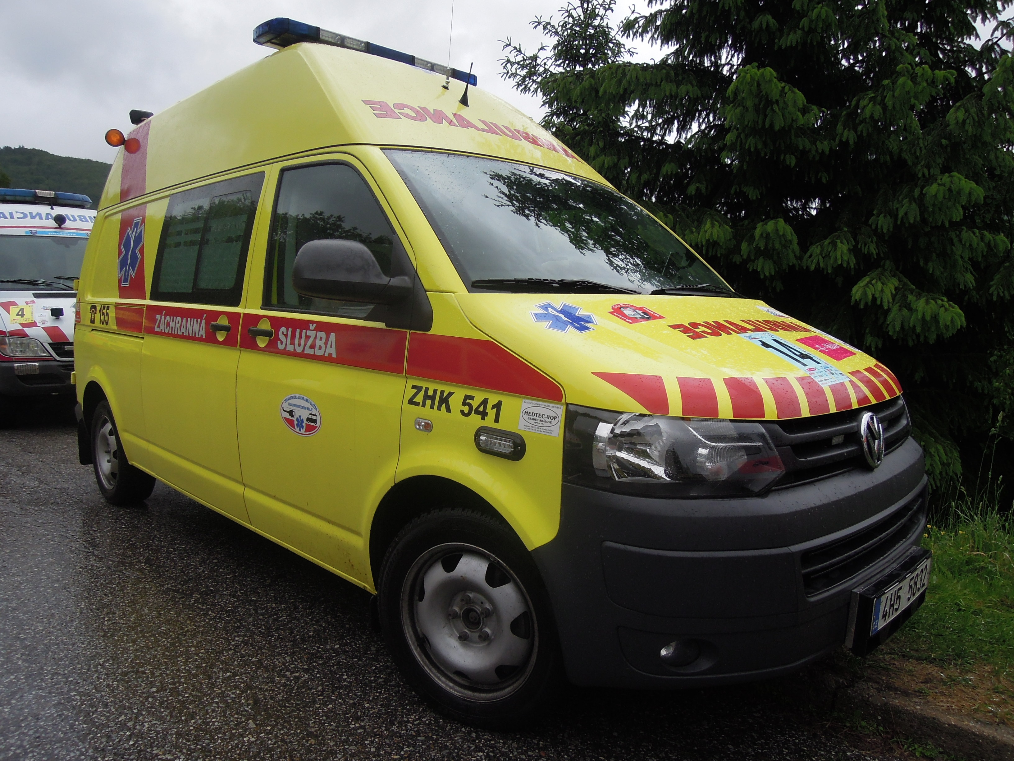 Volkswagen Transporter T5 ambulance of Zdravotnická záchranná služba Královéhradeckého kraje. Photo was taken during the international competition Rallye Rejvíz 2012 in Kouty nad Desnou, Olomouc Region, Czech Republic